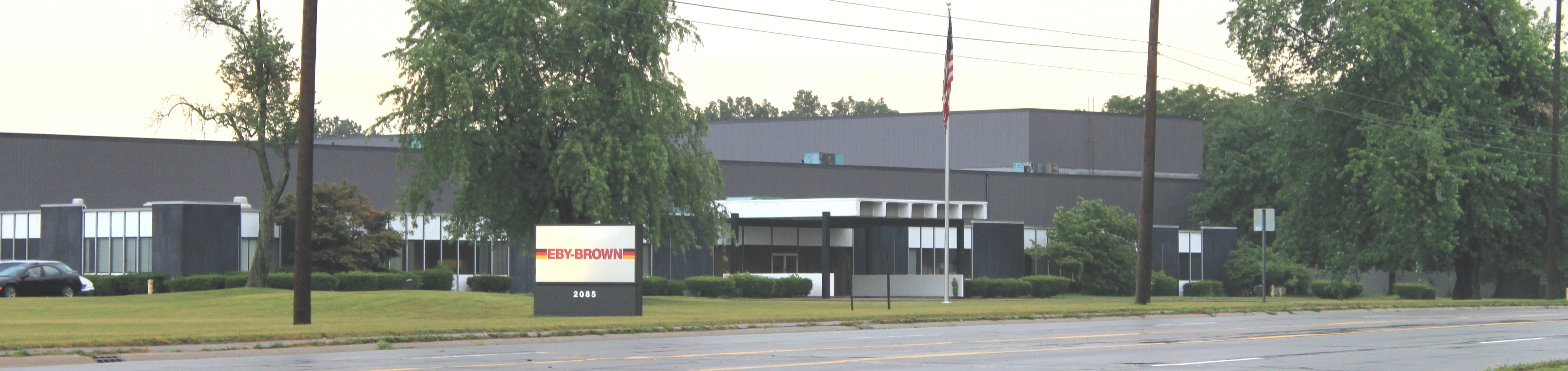 Eby-Brown distribution center, 2085 E. Michigan Avenue, Ypsilanti, Michigan